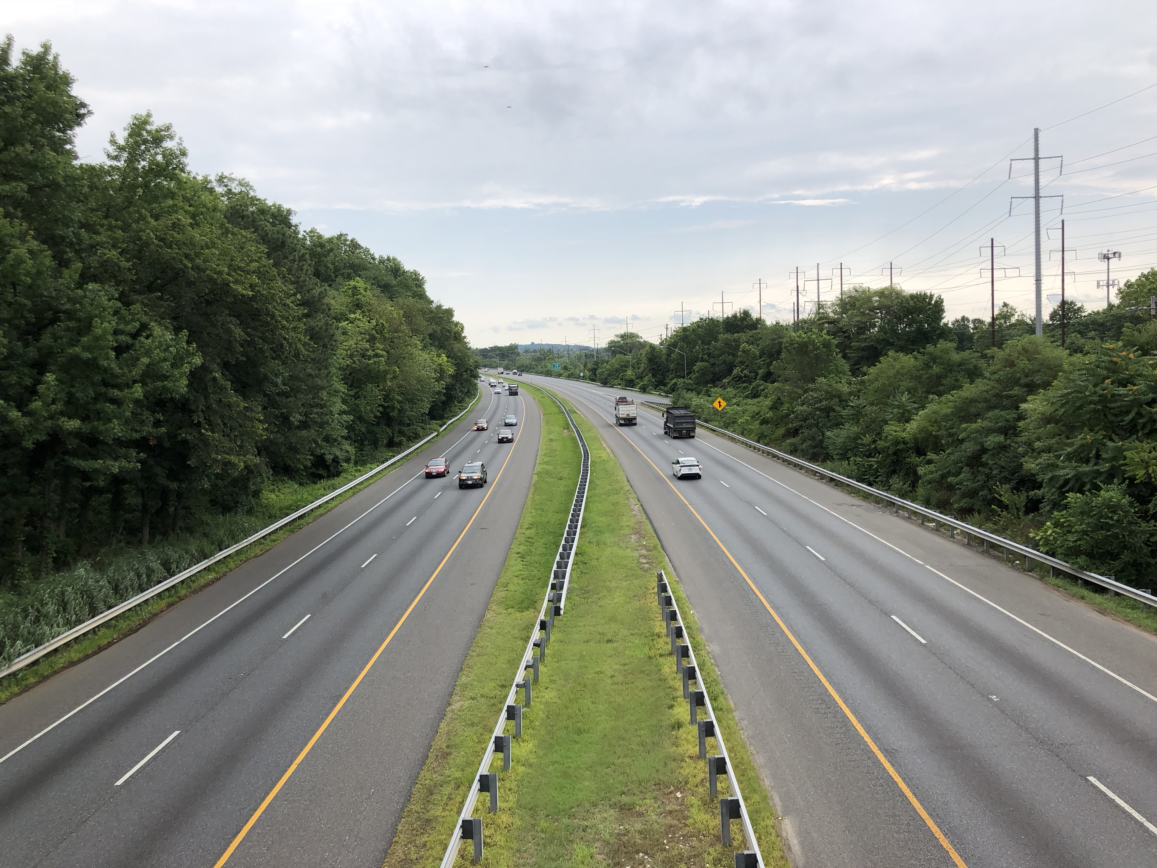 View east along U.S. Route 50 (John Hanson Highway) from the overpass for Maryland State Route 459 (Columbia Park Road/Tuxedo Road) in Cheverly, Prince George's County, Maryland